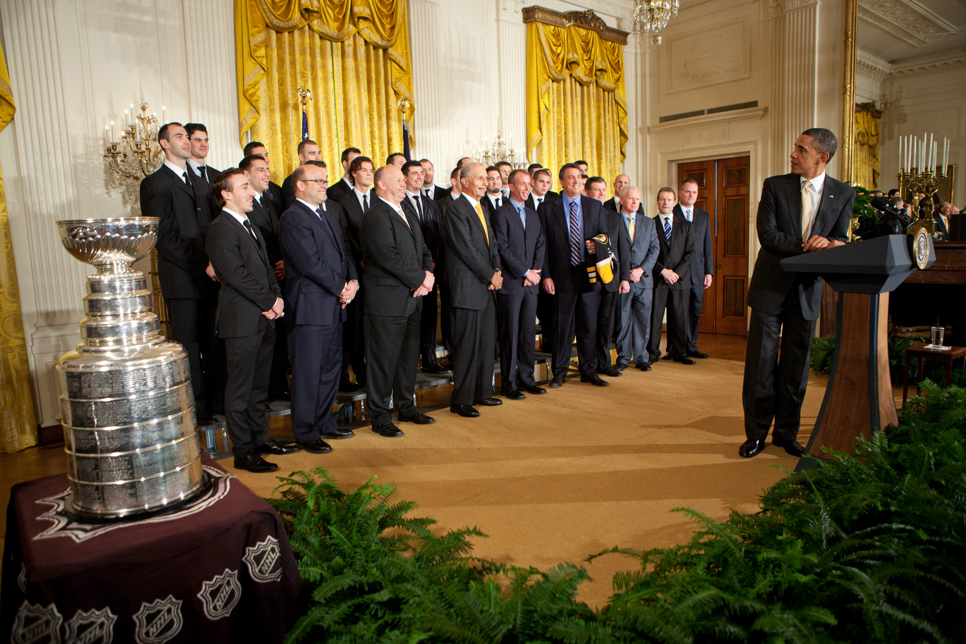 President Barack Obama welcomes the six-time Stanley Cup Champion Boston Bruins to the East Room of the White House, Jan. 23, 2012, to honor the team and their 2011 Stanley Cup victory.